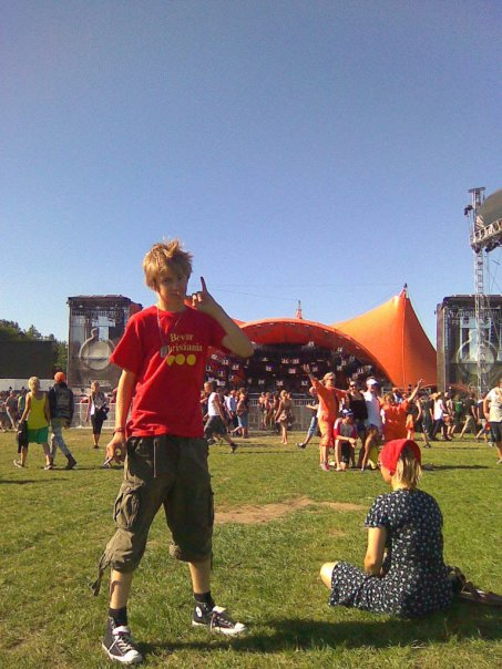 Happy dude in front of Orange Stage